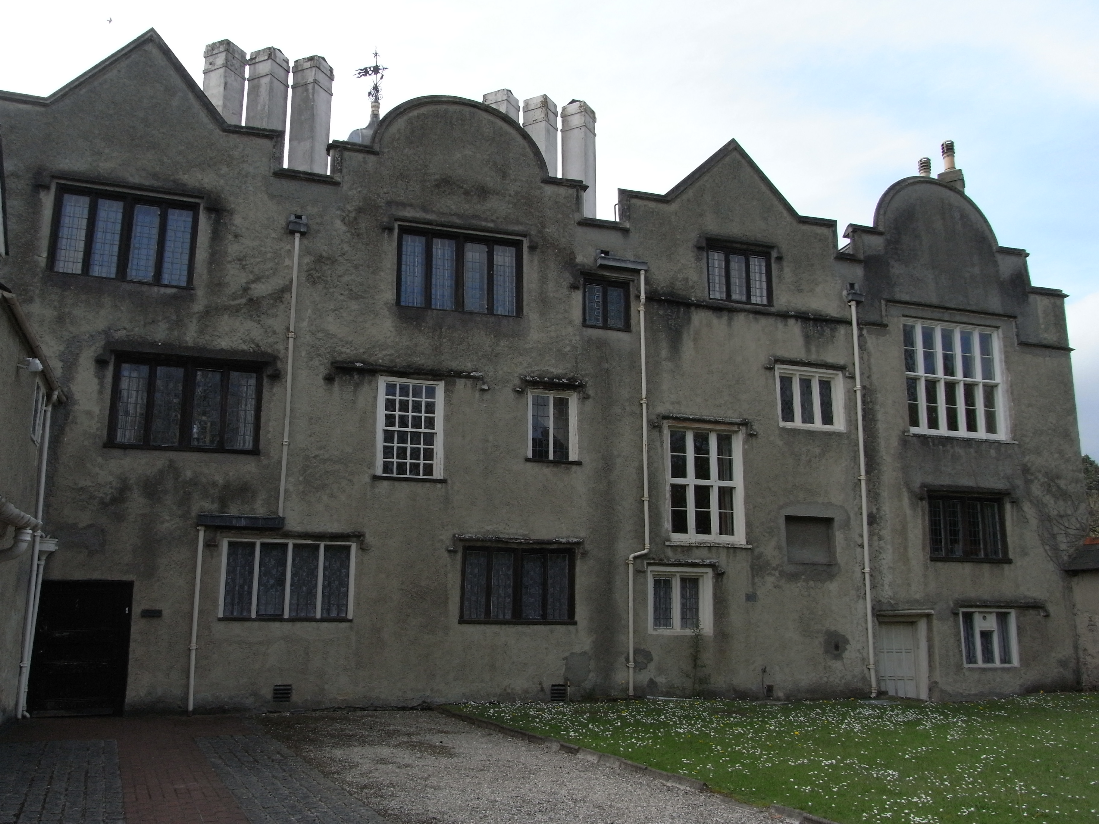 Forde House, Wolborough, Newton Abbot, Devon, rear (north) elevation